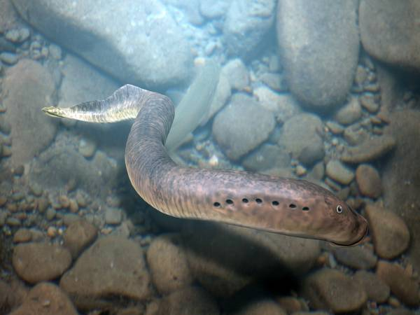 Life reconstruction of Mesomyzon mengae